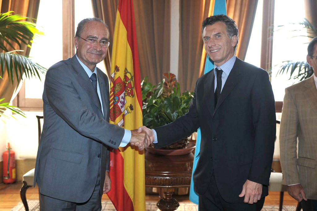 Francisco de la Torre Prados, Mayor of Málaga, Spain.